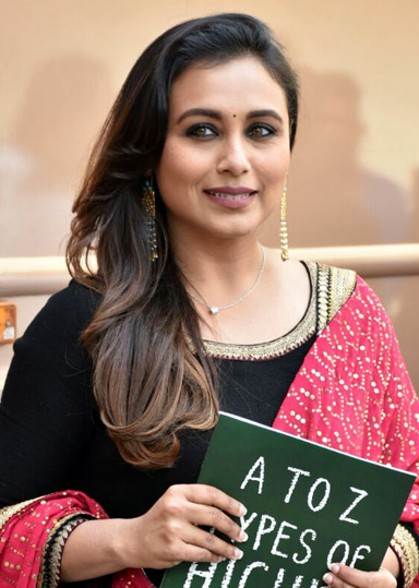 Rani Mukerji promoting Hichki on the sets of Dance India Dance in 2018